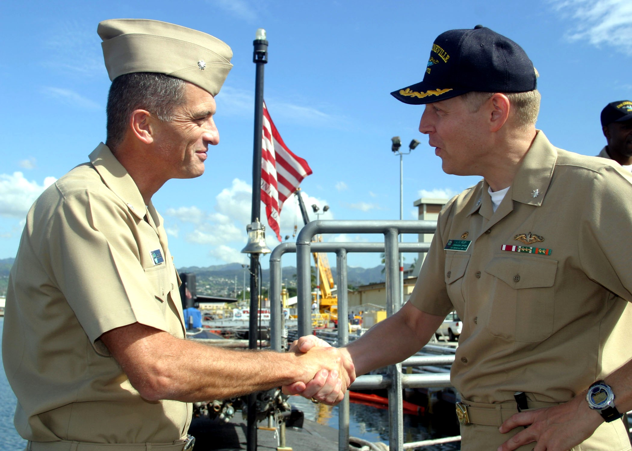 Former commanding officer of Los Angeles-class submarine USS Greeneville (SSN 772), Cmdr. Lee Hankins, left, is greeted by the boats current Commanding Officer, Cmdr. Lorin Selby. Cmdr. Hankins was recently selected as the Pacific Fleet recipient of the Vice Adm. James Stockdale Leadership Award. The annual award, named in honor of this legendary naval officer, recognizes two commanding officers who demonstrate superior leadership and conspicuous contributions to the improvement of Navy leadership while in command of a single ship, submarine or aircraft squadron. One each is selected from the Atlantic and Pacific Fleets.